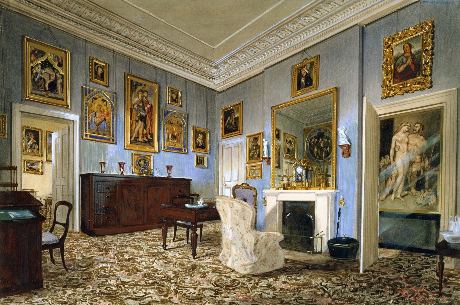 Osborne House: Prince Albert's Dressing Room, 1851 Watercolour and bodycolour with touches of gum arabic over pencil 24.3 x 36.8 cm, Royal Collection, Purchased by HM The Queen, 1986